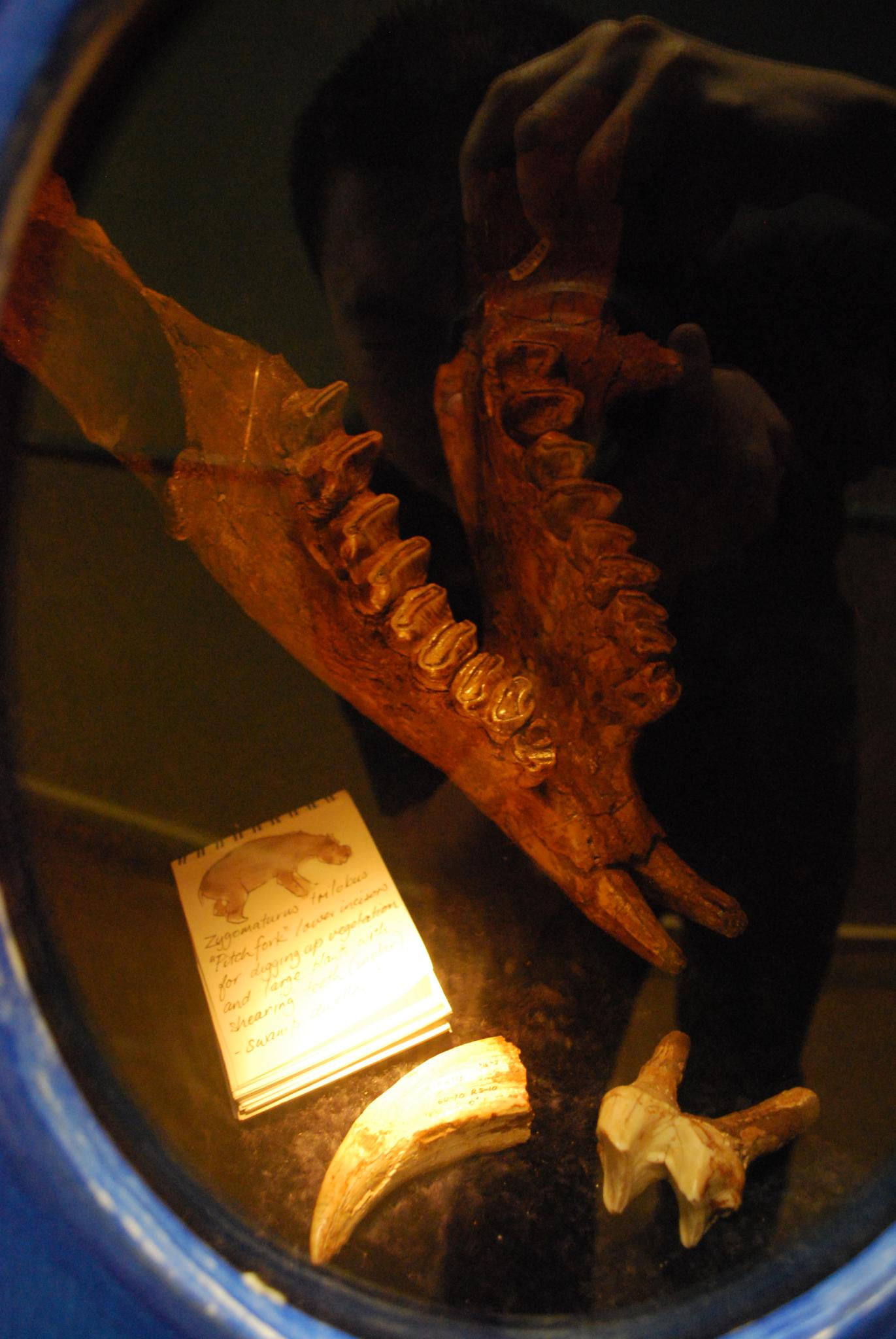 Zygomaturus trilobus; lower incisors for digging up vegetation and large plants with shearing teeth (molar) - Naracoorte Caves National Park - wikipedia - Australian Fossil Mammal Site - Naracoorte - World Heritage - South Australia Both the Naracoorte and Riversleigh sites provide evidence separately of key stages in the evolution of the fauna of Australia - the world's most isolated continent. They are outstanding for the extreme diversity and the quality of preservation of their fossils and help us to understand the history of mammal lineages in modern Australia. The Naracoorte Fossil Mammal Site was inscribed on the World Heritage List in 1994. The Naracoorte Fossil Mammal Site was one of 15 World Heritage places included in the National Heritage List on 21 May 2007.